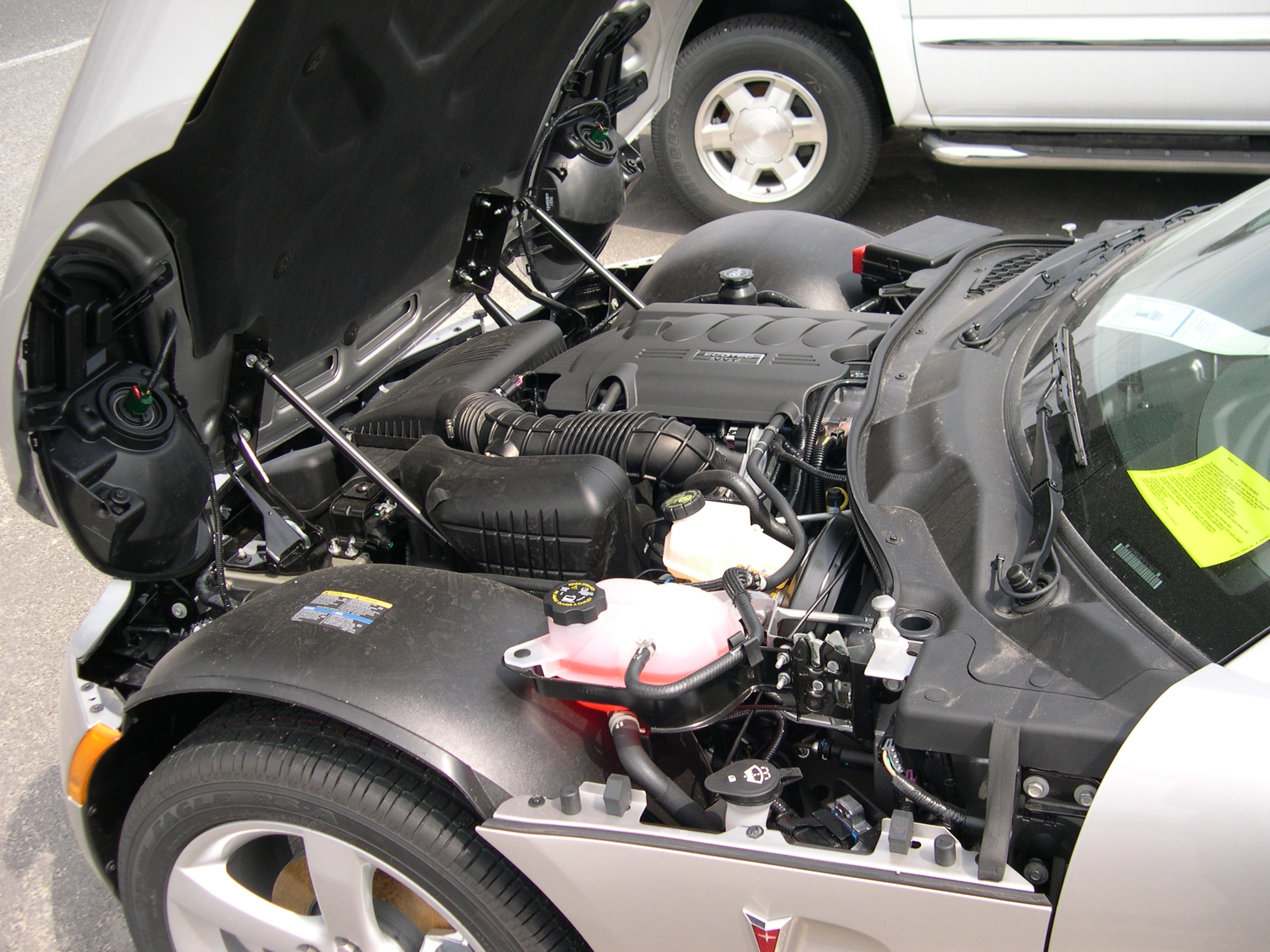 2006 Pontiac Solstice 2.4 L Ecotec (Family II) LE5 engine Photo by Stephen Foskett